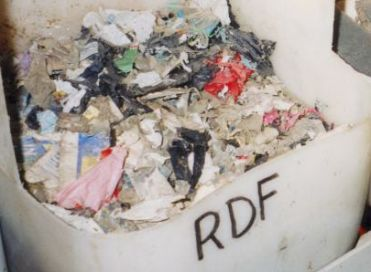 Refuse-derived fuel (RDF) in the Czech Republic.